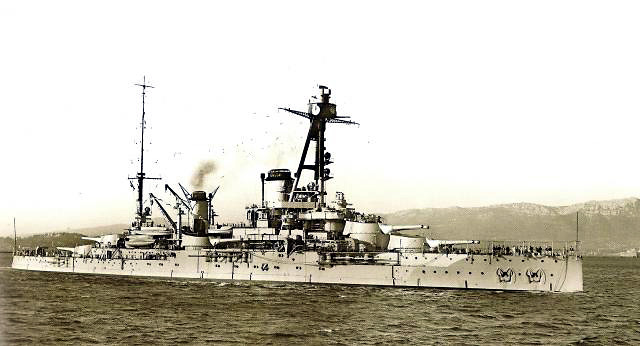 French dreadnought battleship COURBET of 1913 seen at Toulon.